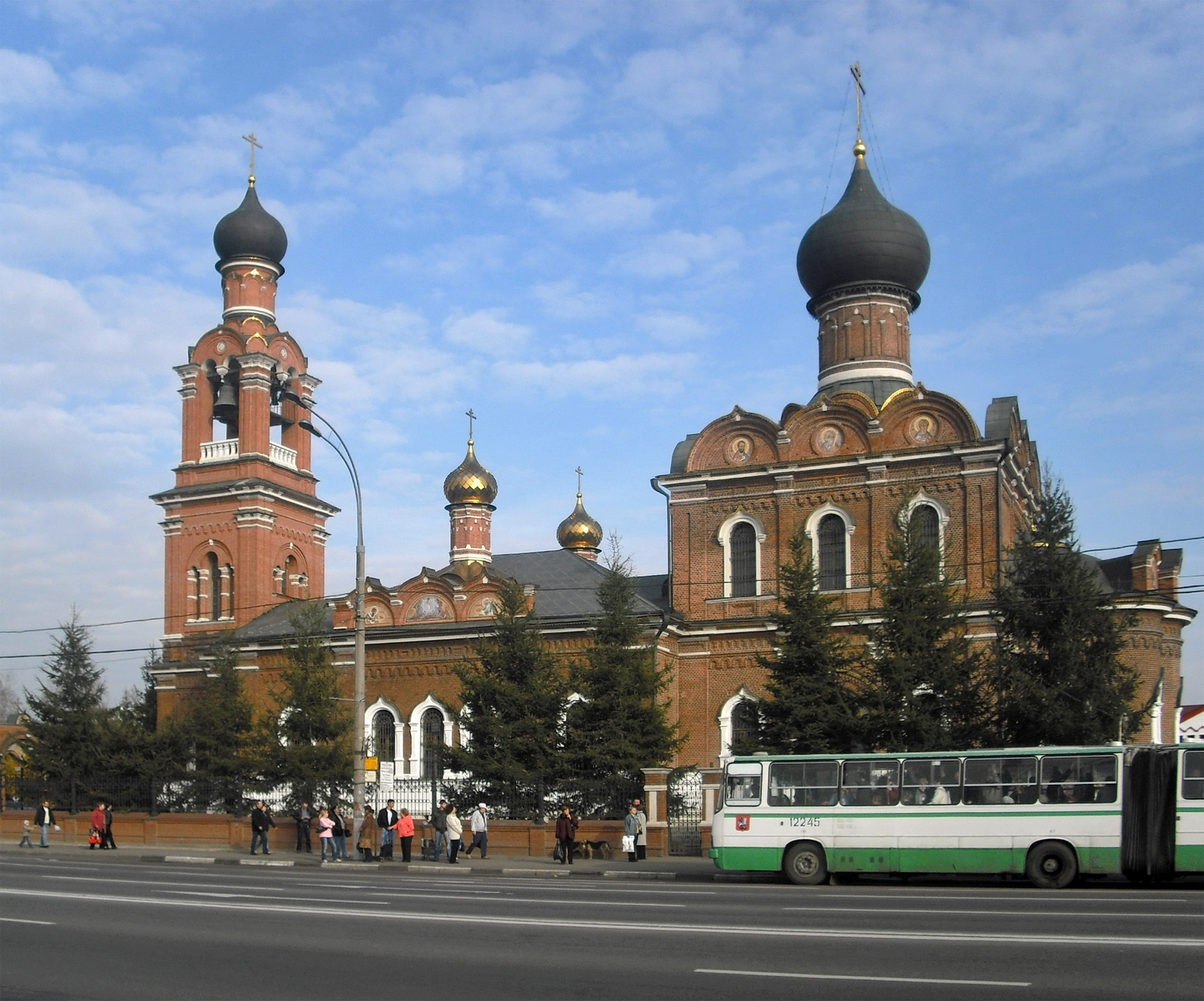 Church of Transfiguration of Saviour in Tushino, Moscow